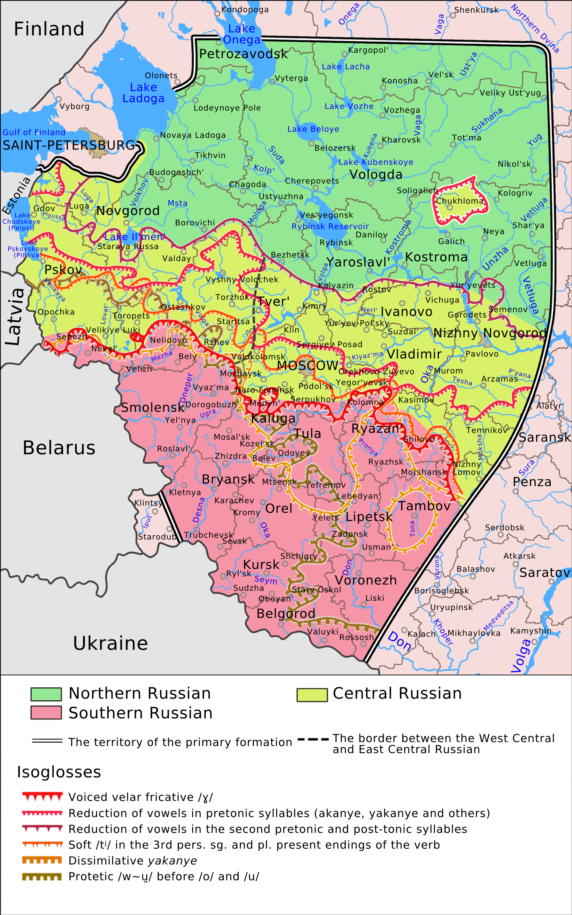 Russian dialect map with the main isoglosses